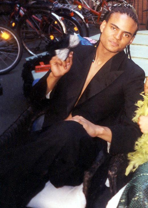 Swedish entertainer Mohombi Moupondo, as released by image creator F.U.S.I.A.;Place: Hökens gata 3, Stockholm, Sweden